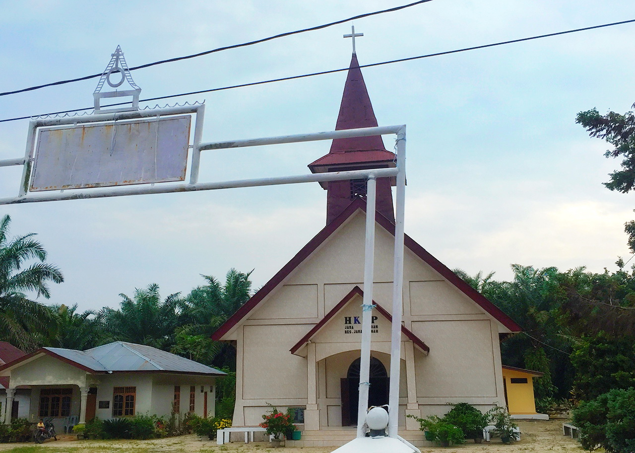 HKBP Jawa Tongah, Church in Jawa Tongah, Hatonduhan, Simalungun